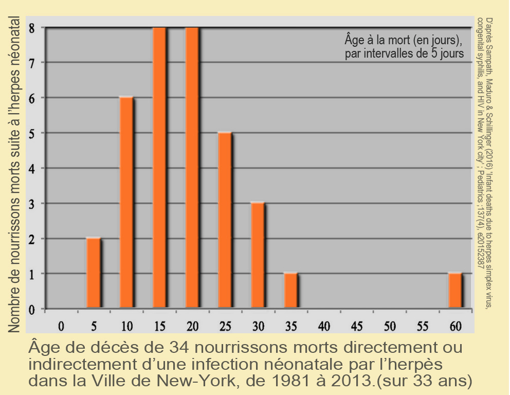 Chart showing that there is a critical age for infants with neonatal herpes, based on data and arcticle from Sampath, A., Maduro , G., & Schillinger, JA (2016) titled "Infant deaths due to herpes simplex virus, congenital syphilis, and HIV in New York city", published in the journal Pediatrics (137 (4), e20152387). According to this study, in New York, 34 newborns died in 33 years (from 1981 to 2013), or 0.82 deaths per 100,000 live births, compared to 38 deaths per syphilis congenital (0.92 per 100,000) or 262 deaths caused by HIV (6.33 per 100,000) at the same time. However, while infant deaths by HC are decreasing (no cases between 1996 and 2015) as well as for HIV (a single infant death between 2004 and 2015), the neonatal mortality rate related to HSV has significantly increased during the decade (2004-2013) compared with previous years